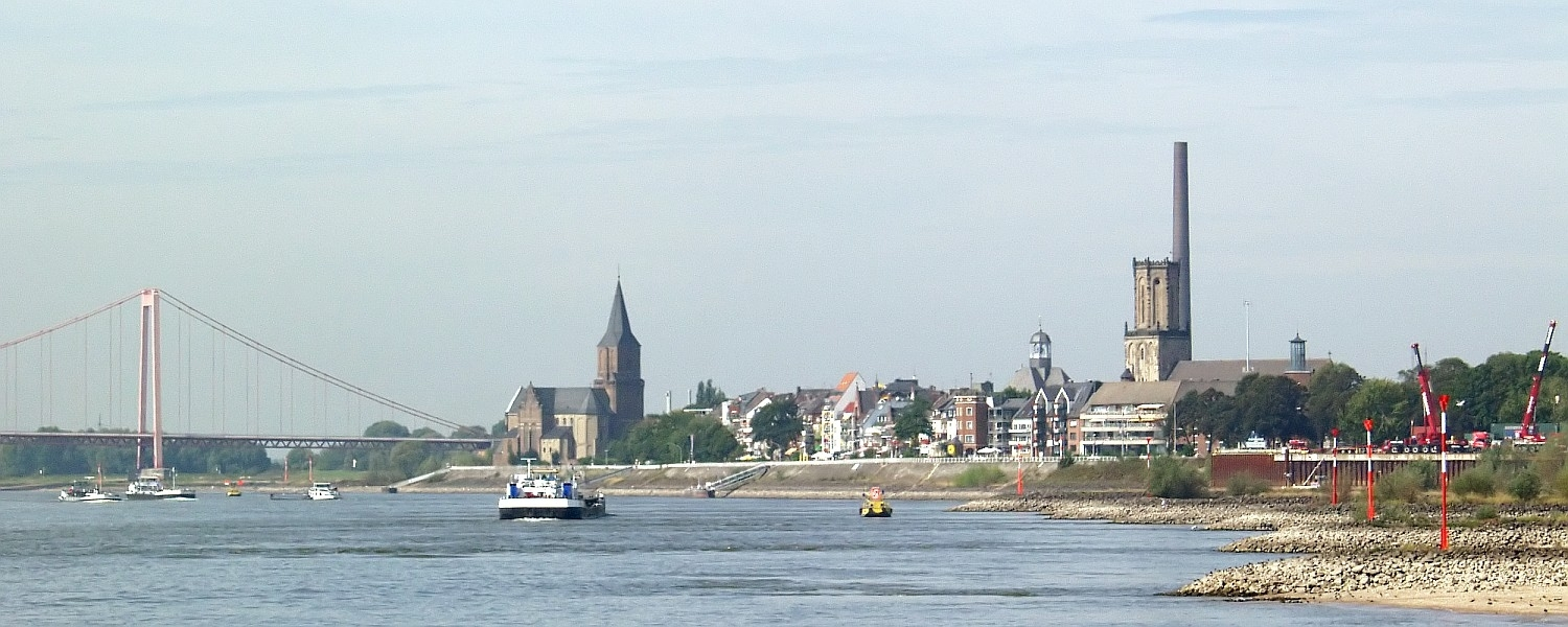 Emmerich am Rhein, view from the east to the riverside